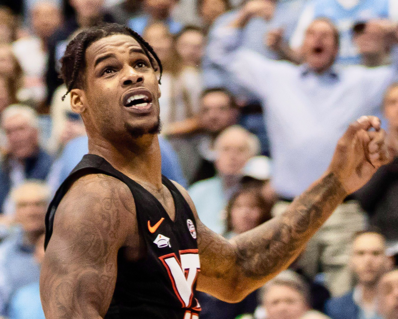 Nassir Little dunks the ball.